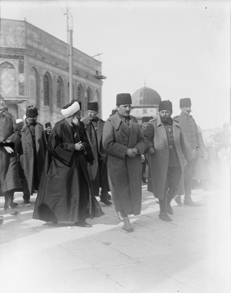 [Enver Pasha visiting the Dome of the Rock accompanied by Jamal (Cemal) Pasha, Jerusalem]